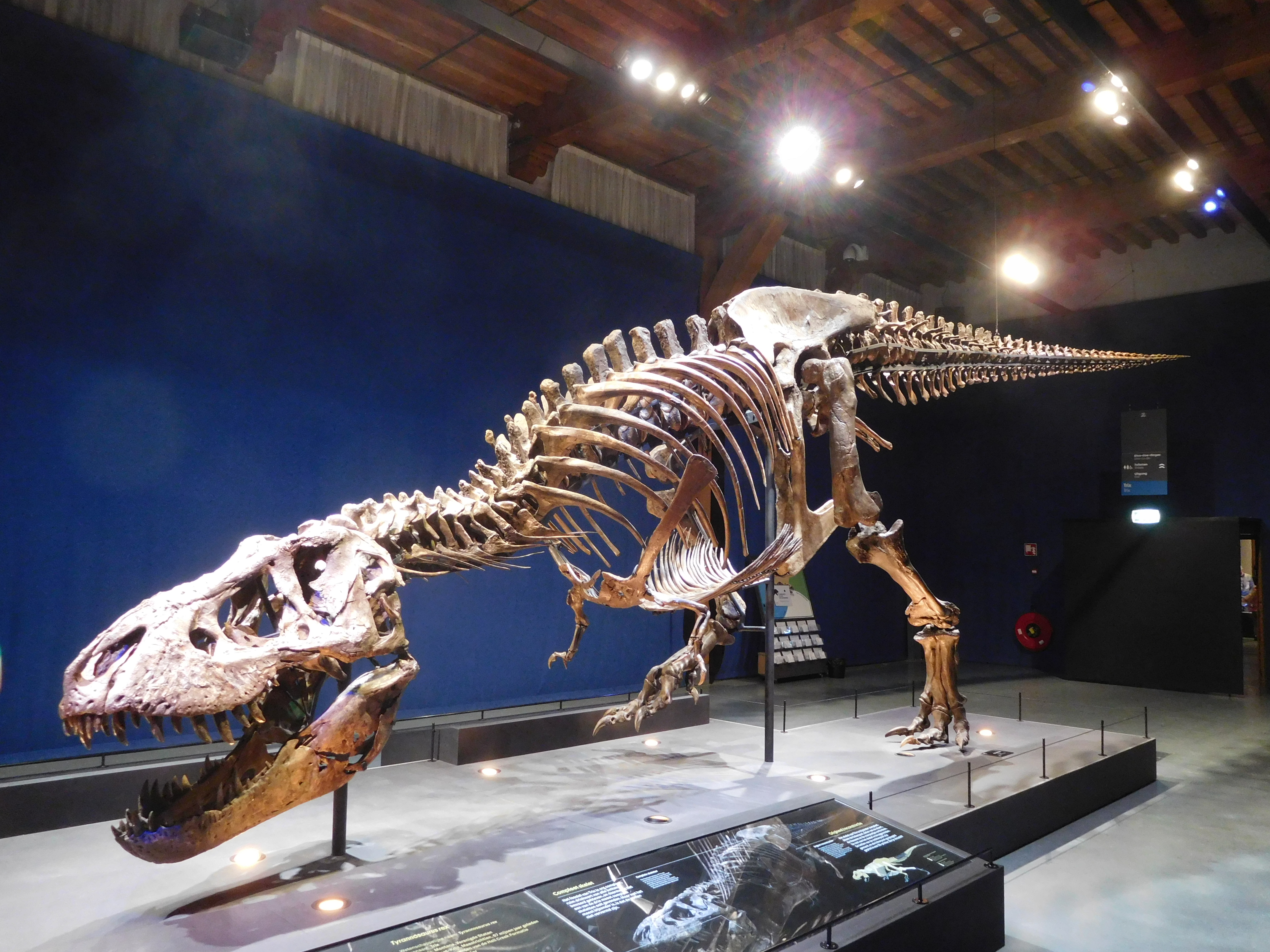 Presentation of the Tyrannosaurus specimen RGM 792.000 in the 2016-2017 exposition "T. rex in town" of the Naturalis Biodiversity Center, Leiden, the Netherlands.